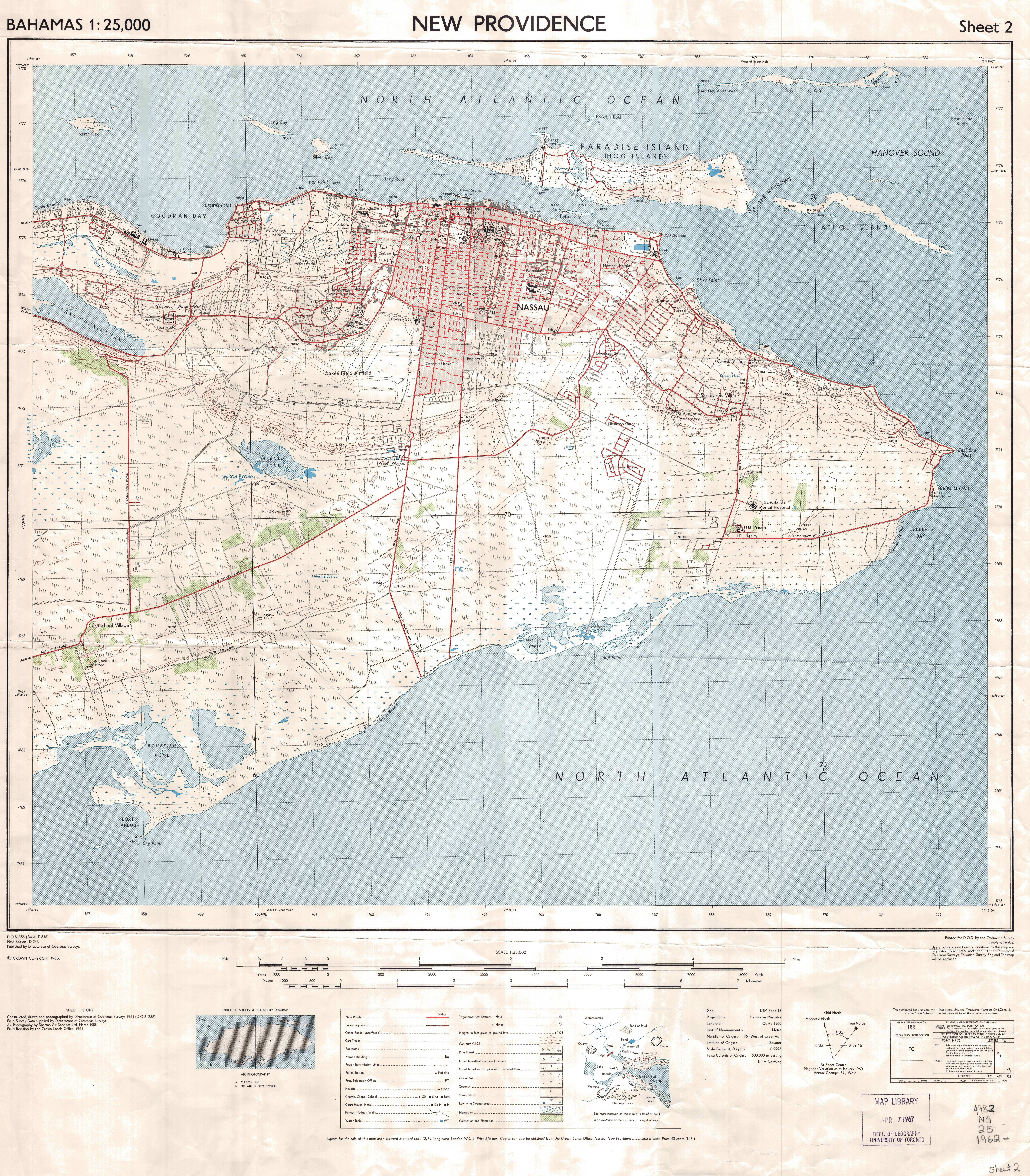 map of east part of New Provicence Island, Bahamas